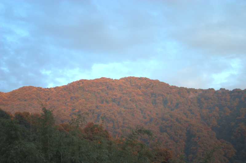 A view of Neora Valley National Park taken from Alu Bari Camp.